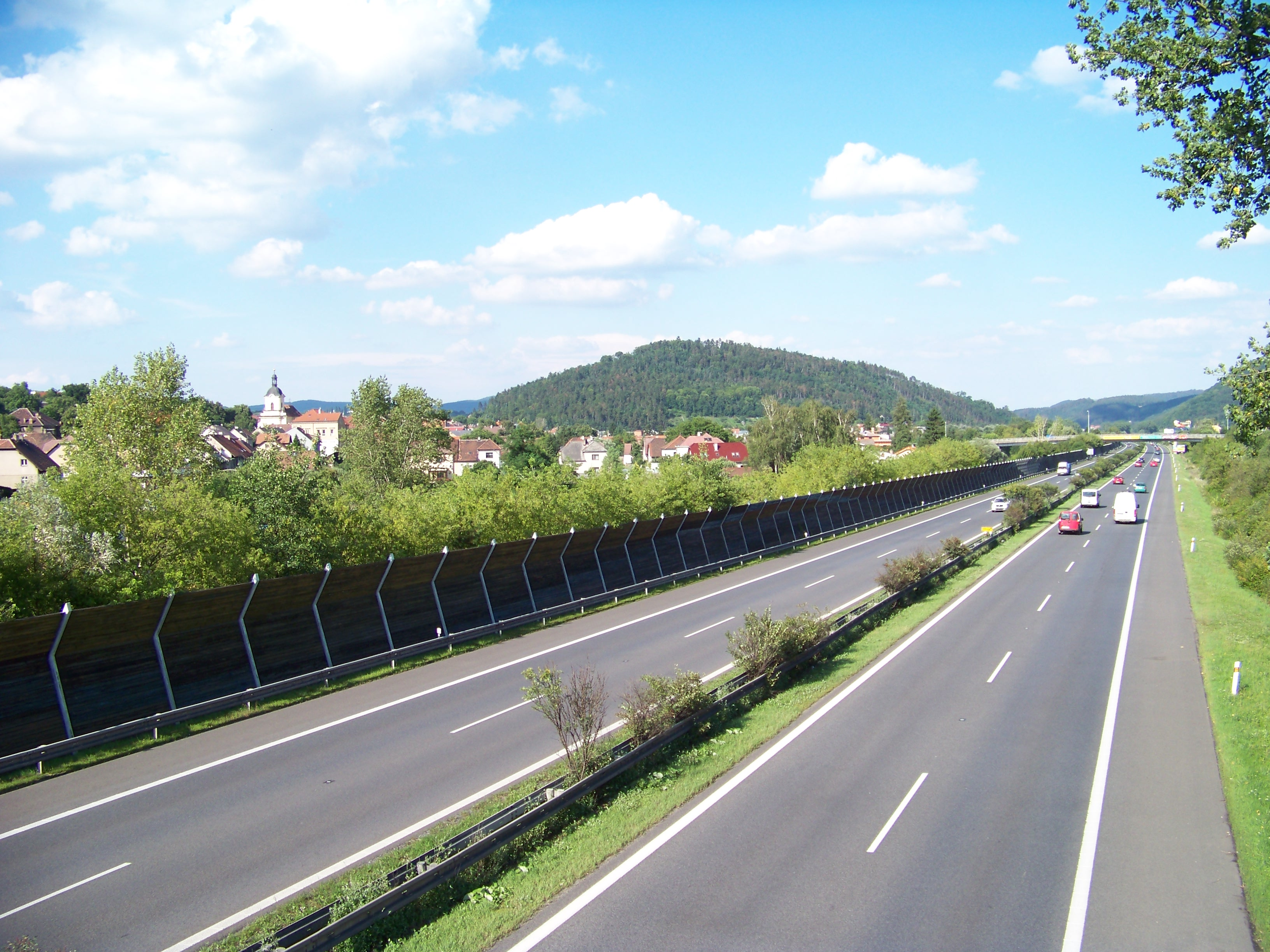 Zdice, Beroun District, Central Bohemian Region, the Czech Republic. A view of a town, D5 highway and Knihov hill from the footbridge. - Google Maps - Google Earth